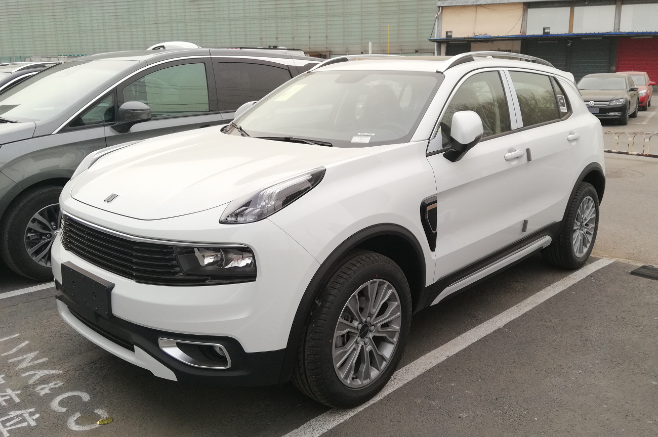 Lynk & Co 01 photographed in Beijing, China.